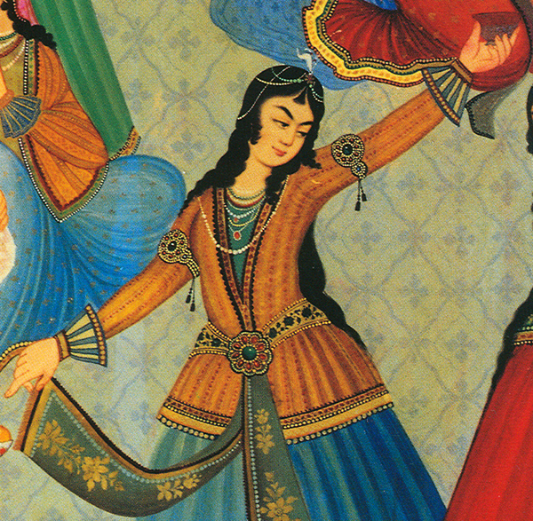 A Persian Woman dancing. From wall painting at Hasht-Behesht Palace, Isfahan, Iran. Photo by Zereshk. Originally uploaded by him on english WP where its location is (was) Image:Raghs.jpg.